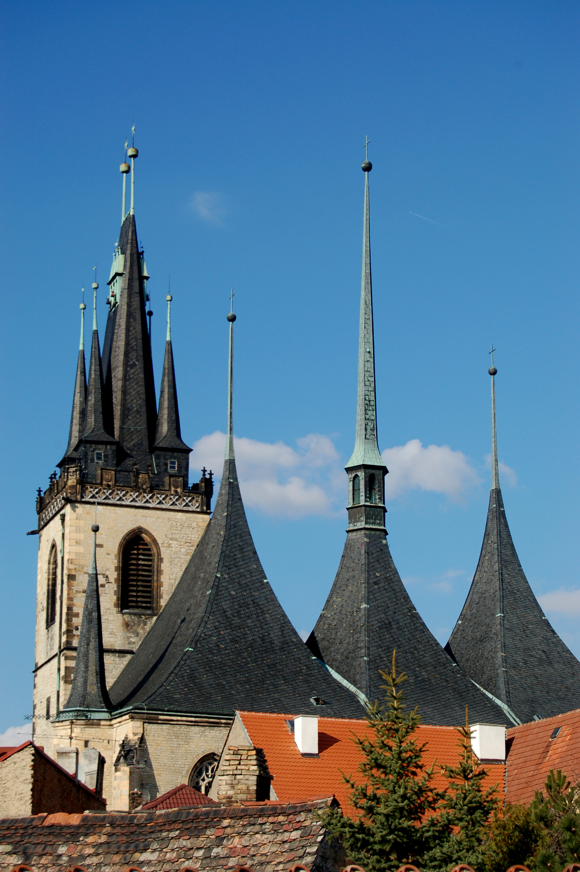 Church of St. Nicholas in Louny, Czechia